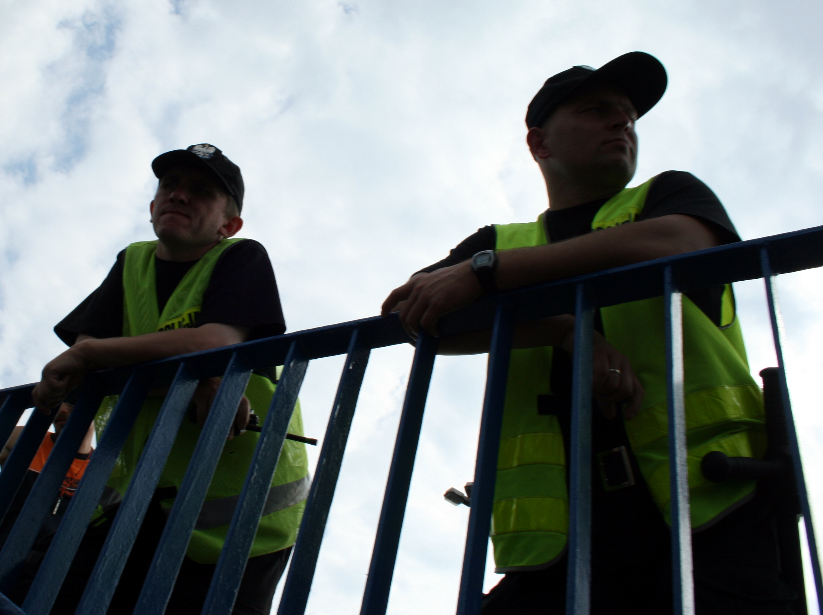 Polish policemen keeping order in Trasa Zamkowa (Szczecin) during The Tall Ships' Races in Szczecin (2007)